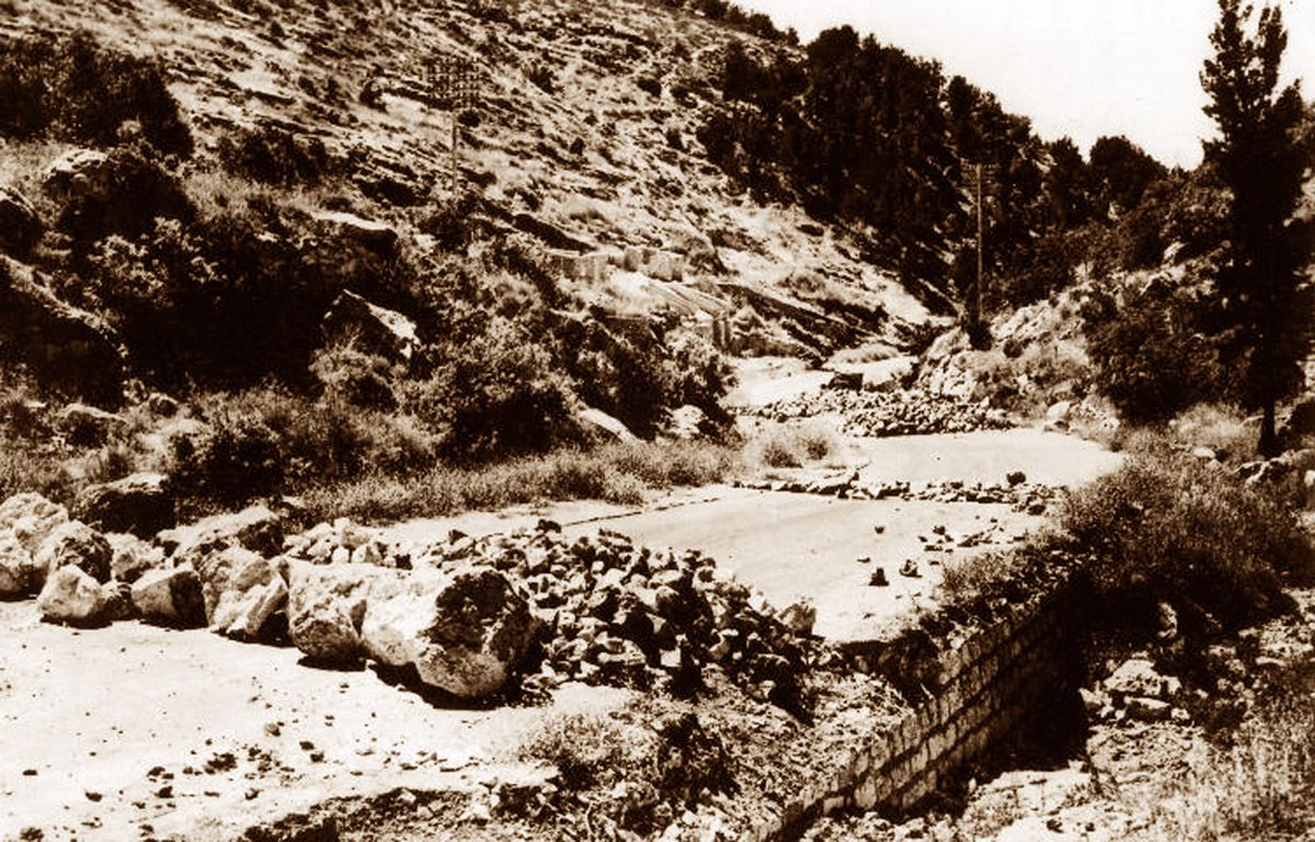 Blocked road to Jerusalem 1948